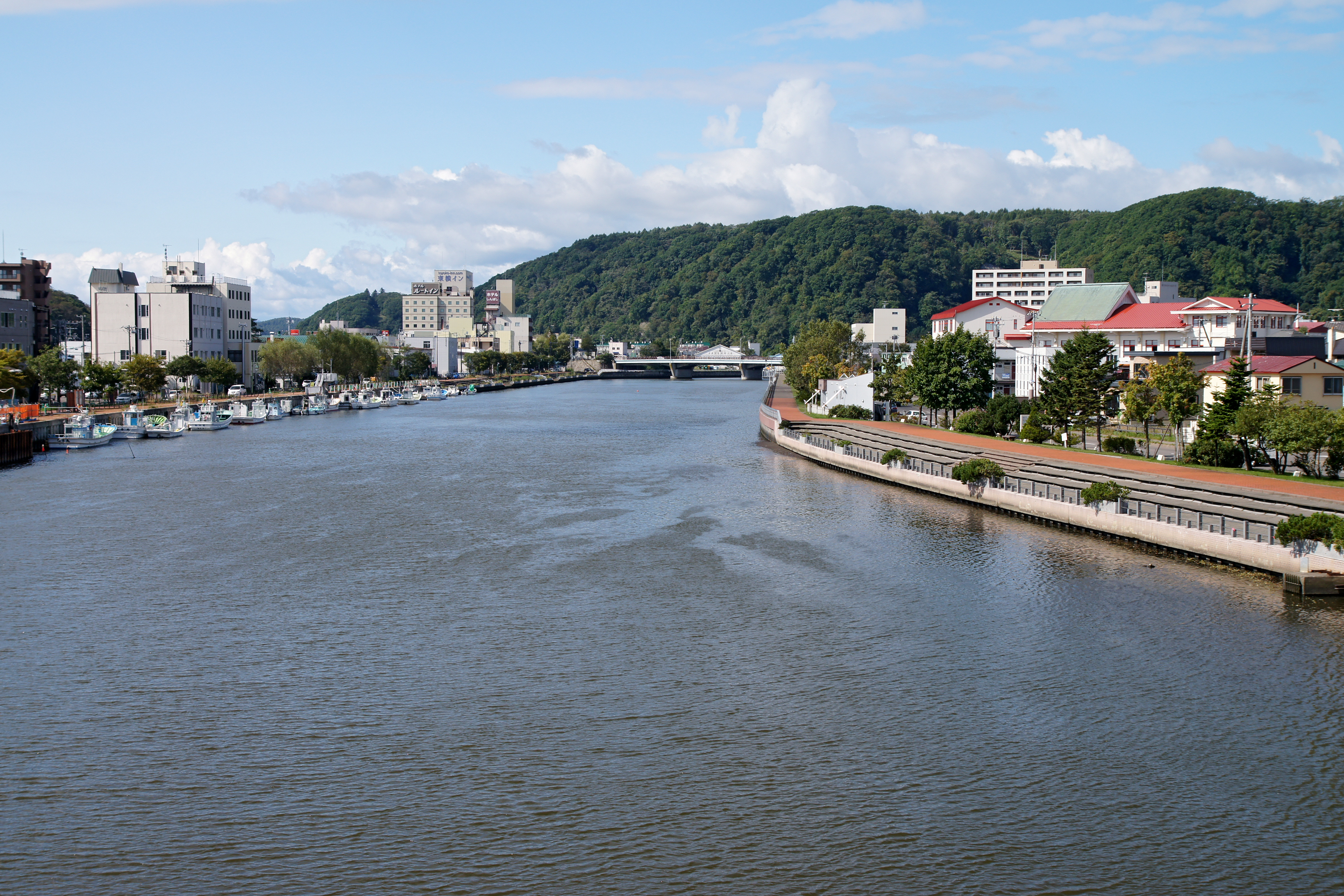 Abashiri River in Abashiri, Hokkaido prefecture, Japan